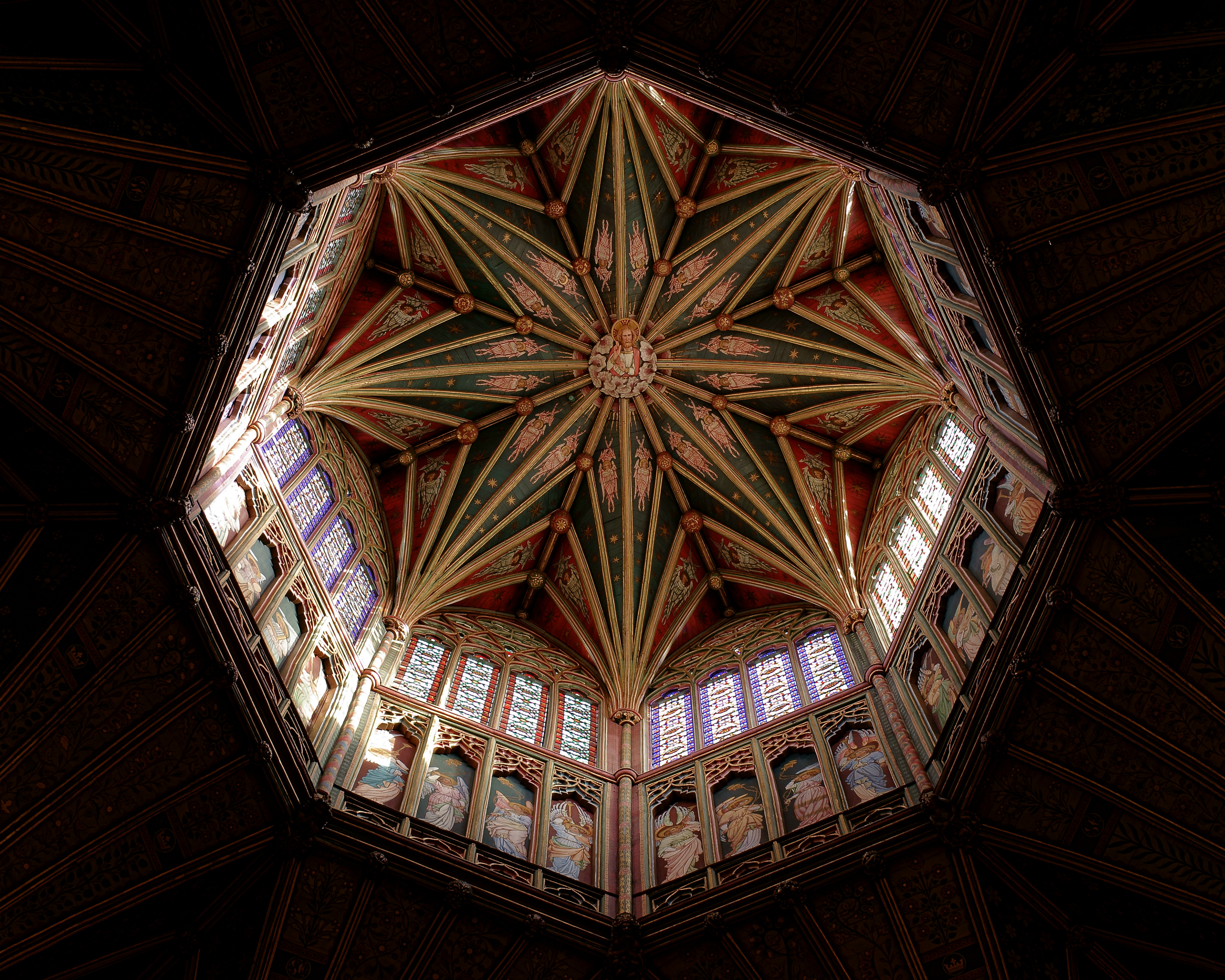 Ely Cathedral